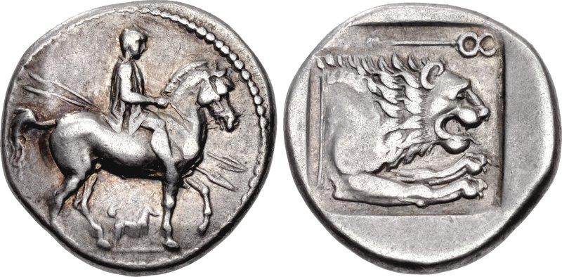 KINGS of MACEDON. Perdikkas II. 451-413 BC. AR Tetrobol (15mm, 2.45 g, 12h). Heavy series. Struck circa 437/6-432/1 BC. Horseman, wearing petasos, holding two spears, riding right; below, dog standing right / Forepart of lion right; kerykeion above; all in shallow incuse square. Raymond 200 (A26d/HP24c); SNG ANS 53 var. (Π not kerykeion; same obv. die); SNG Copenhagen 500 (same dies). Good VF, lightly toned. Rare issue with dog. Ex Numismatica Ars Classica Q (6 April 2006), lot 1296.